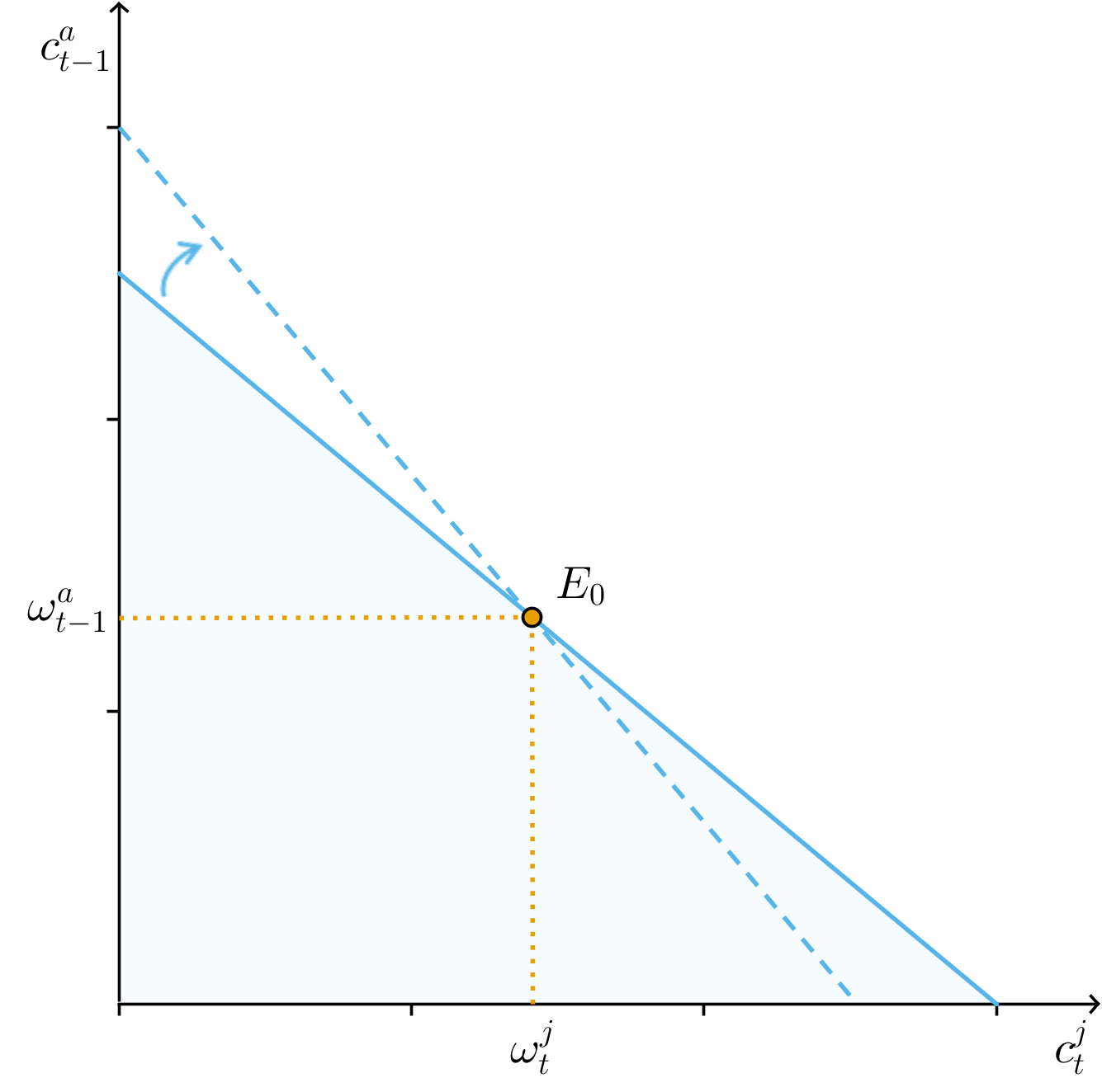 Pivoting around Endowment Point in simple OLG Model.